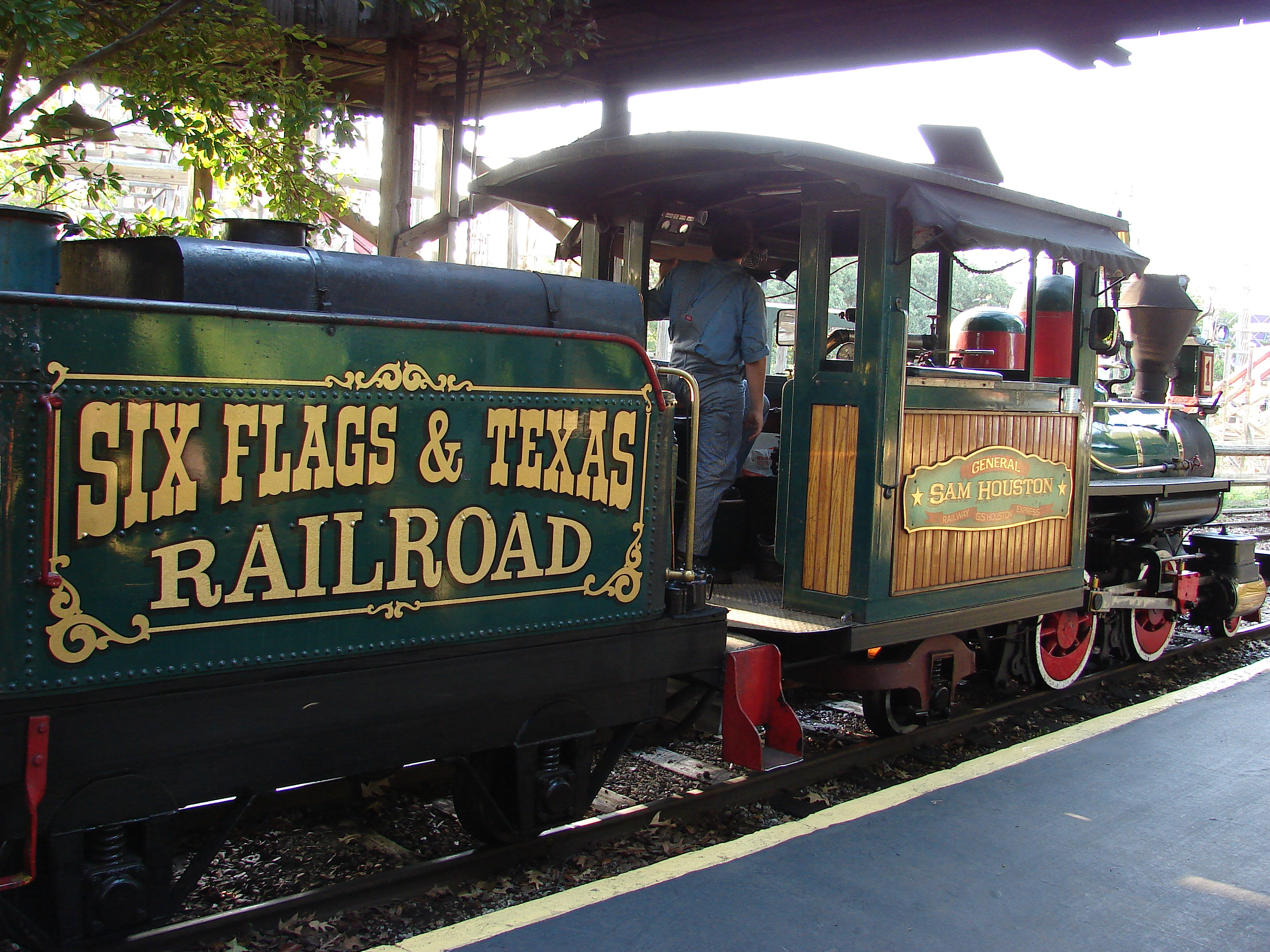 Six Flags Railroad train ride "General Sam Houston" at Six Flags Over Texas.